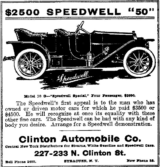 A 1910 Speedwell Advertisement